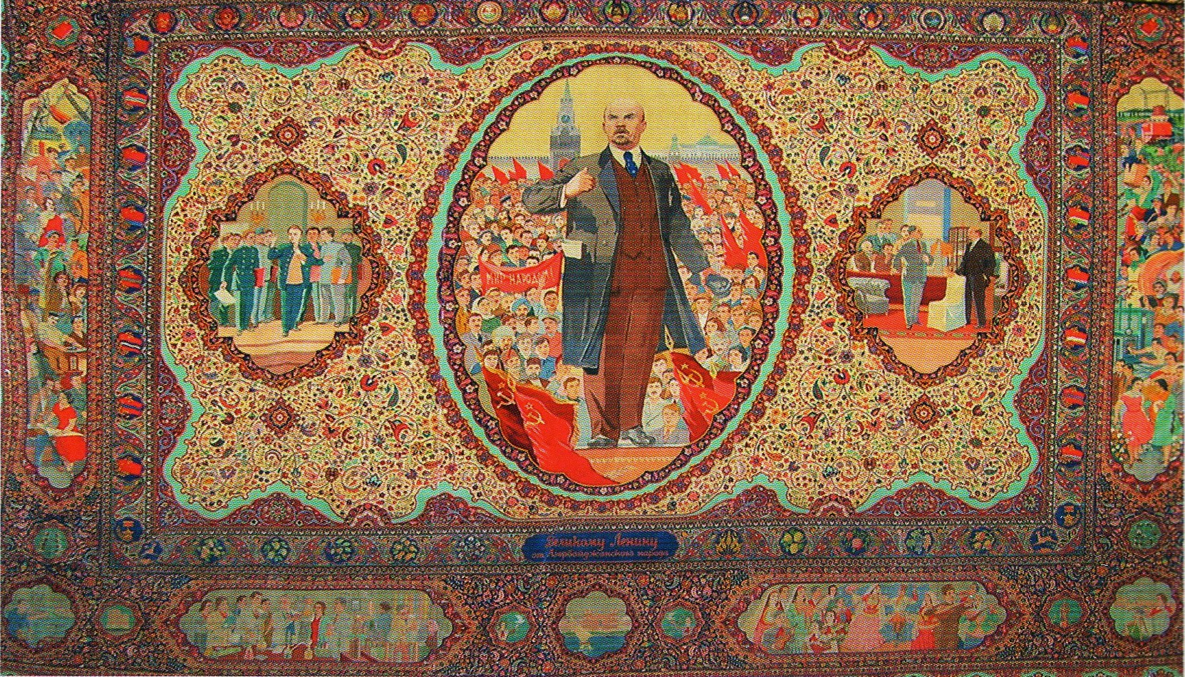 Latif Kerimov. "Lenin" carpet, 1957. The R. Mustafayev Museum of Fine Art, Baku.